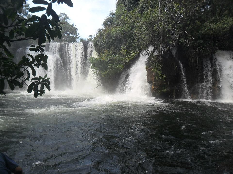 This was taken on a weekend in one of the most beautiful waterfalls exist, in my opinion.